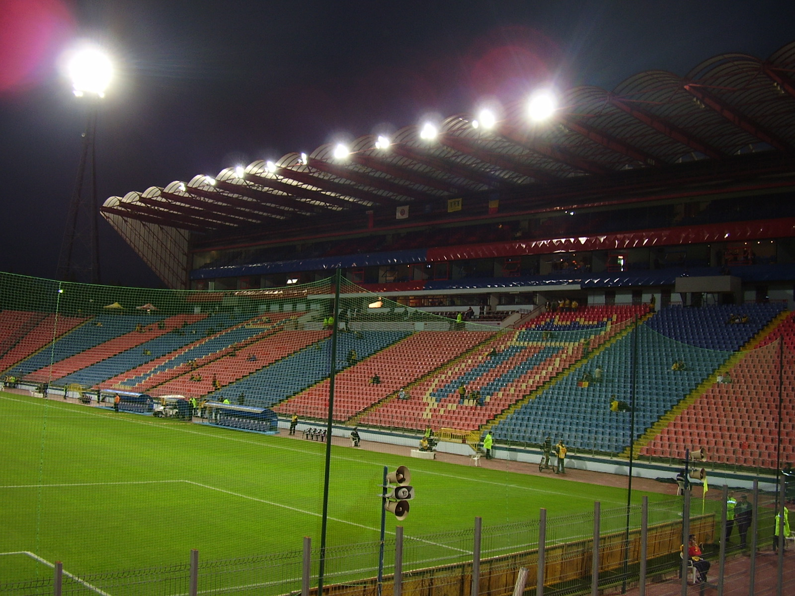 Picture taken by Gabinho at a Romania vs Belarus match